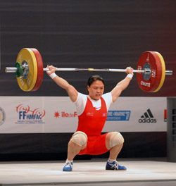 DPRK lifter Pak Hyon-Suk at the 2011 World Weightlifting Championships (WWC)